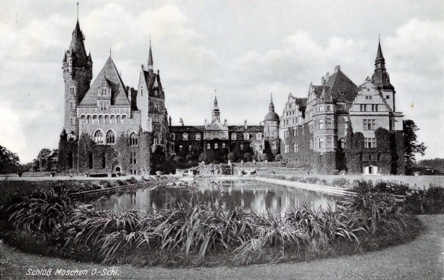 The German label on the image translates: Moschen Castle Upper Silesia